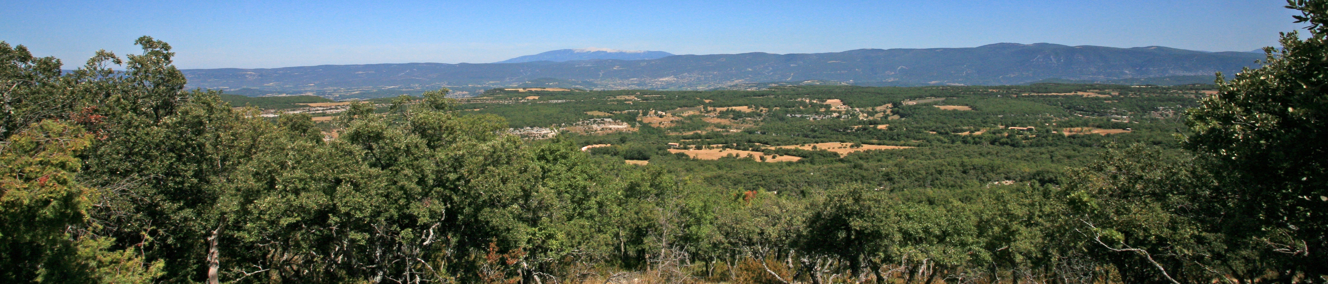 view from the hight of Sivergues (France) to the north-west over the plateau de claparèdes (first plan after the trees), the « Monts de Vaucluse » including the « signal de Saint-Pierre » (1 256 m), and the mont Ventoux at the back.